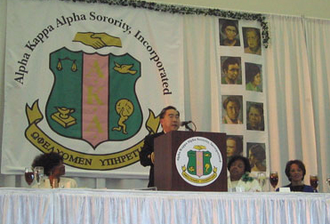 Caption: 98th National Founders Day in January 2006 - Then-Deputy Surgeon General, now Acting Surgeon General Rear Admiral Kenneth P. Moritsugu, M.D., M.P.H., addresses participants at the Alpha Kappa Alpha Sorority, Inc., 98th National Founders Day. Then Alpha Kappa Alpha Executive Director Barbara McKenzie sits to the right. Website ("On the Road to Better Health in Mississippi")